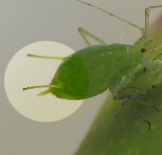 Cornicles of aphids. Willow grove, Montgomery county, PA.